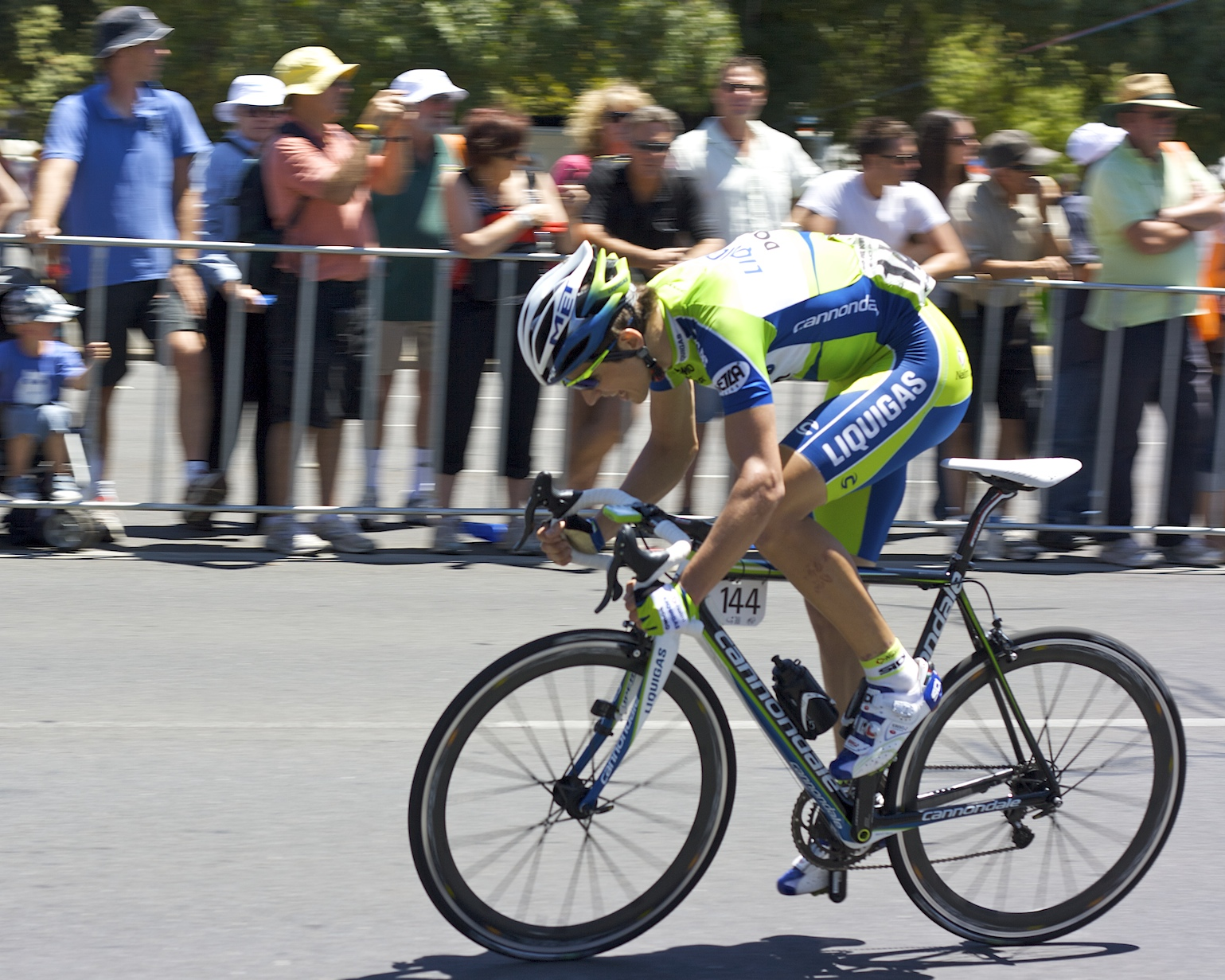 Maciej Paterski - Stage 6, 2010 Tour Down Under